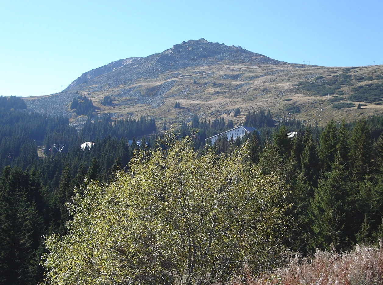 Malak Rezen Peak with Stenata ski run on the right; Aleko area on Vitosha Mountain, Bulgaria. Photograph by Nikolay Rainov published in under Creative Commons license 2.5.